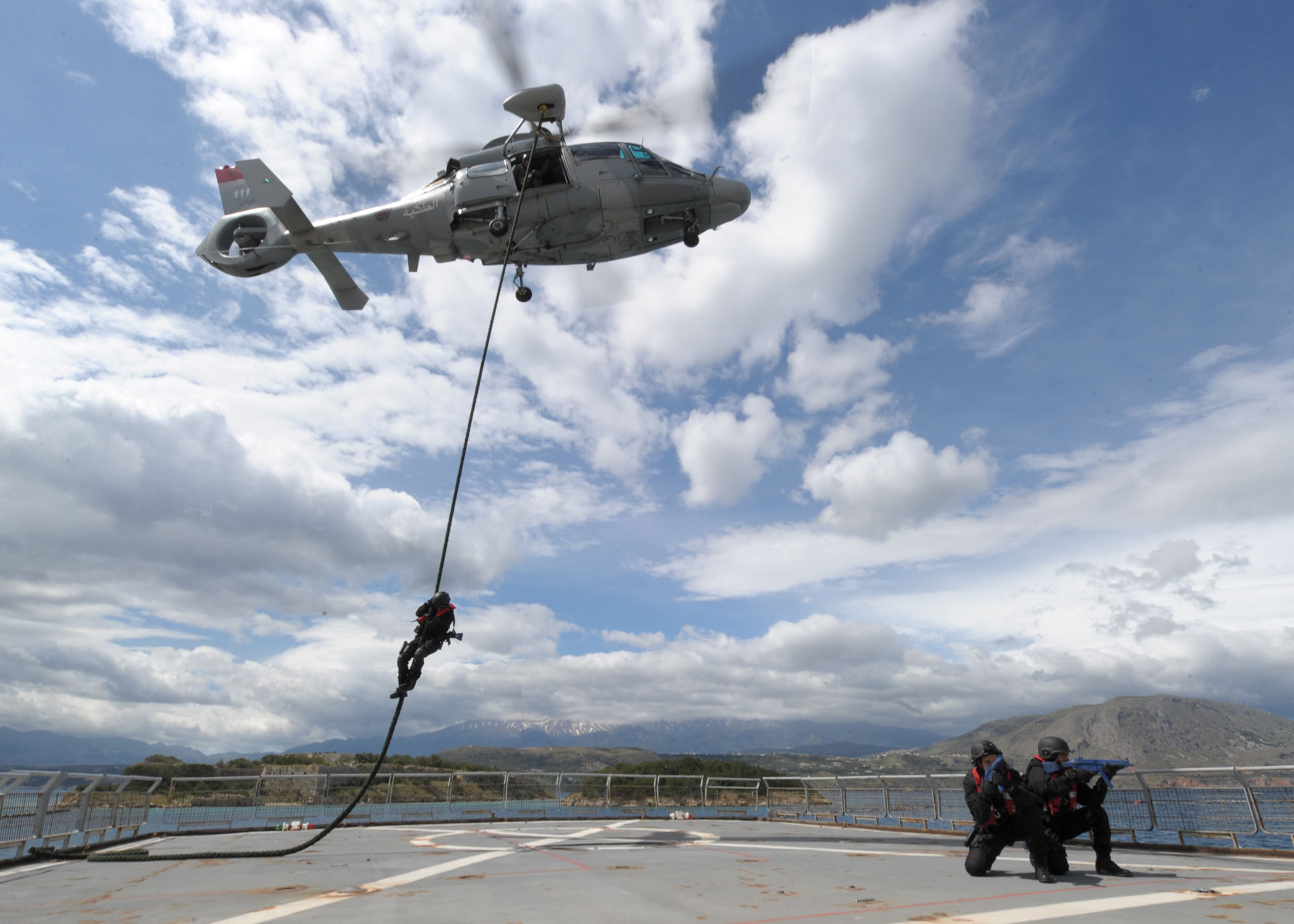 A boarding team member fast ropes out of a Royal Moroccan Navy Eurocopter AS565 MA Panther helicopter onto the deck of the Hellenic Navy training ship HN Aris (A-74) May 18, 2012, at the NATO Maritime Interdiction Operations Training Center in Souda Bay, Greece, during Phoenix Express 2012. Phoenix Express is an at-sea exercise designed to strengthen maritime partnerships and enhance stability through increased interoperability and cooperation among partners from Africa, Europe and North America.